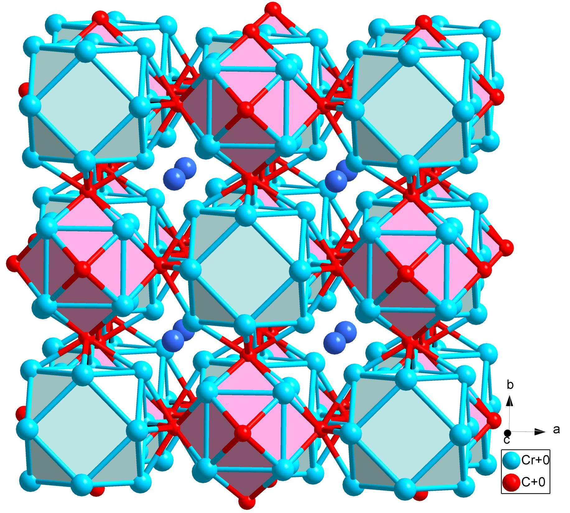 This image was created with the Diamond software ( The image shows an atomic representation of the Cr23C6 structure type important to chemistry and crystallography.